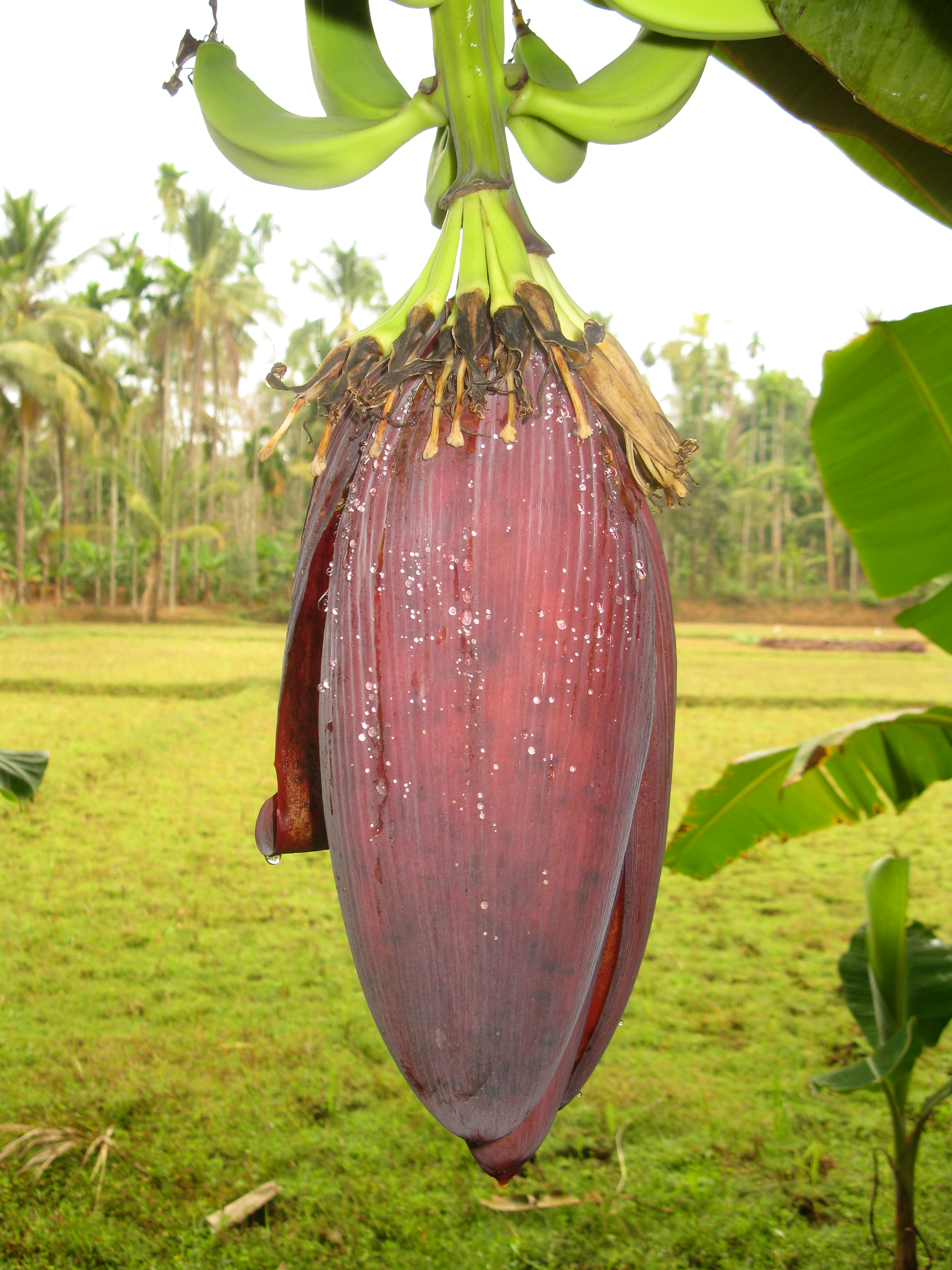 This media file is uploaded with Malayalam loves Wikimedia event.